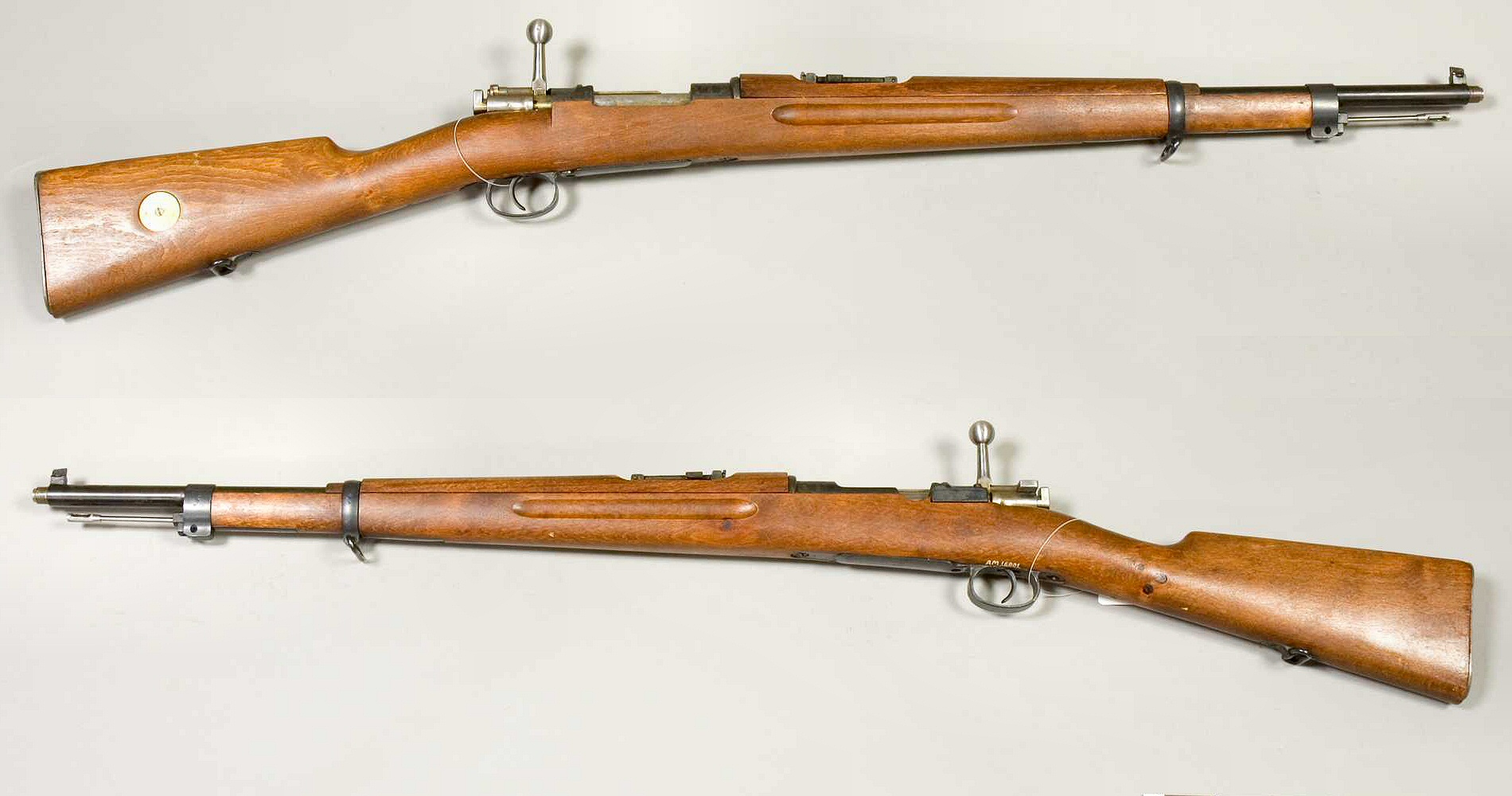 Swedish Mauser rifle Model 1938 (rebuilt Model 1896; rebuilt 1938-1940 by Carl Gustafs Stads Gevärsfaktori). Caliber 6.5x55mm. From the collections of Armémuseum (Swedish Army Museum), Stockholm.